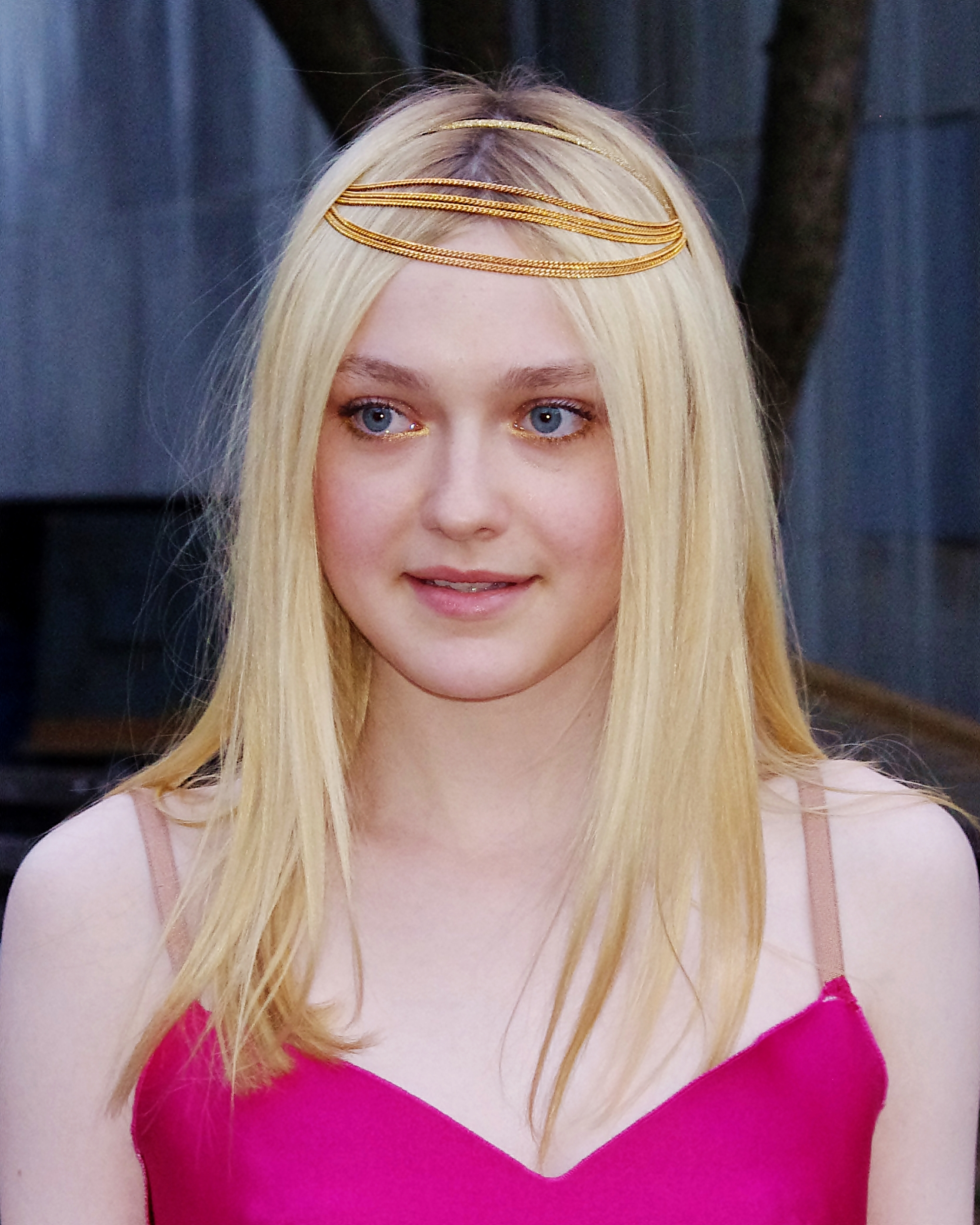 Dakota Fanning at the Vanity Fair party for the 2012 Tribeca Film Festival.